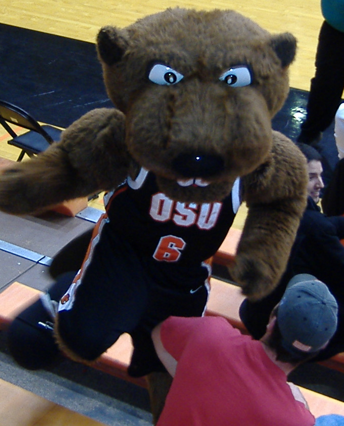 Picture of Benny Beaver (en), mascot of the athletics programs of Oregon State University, taken by me 12/19/2006 at basketball game vs. Howard University